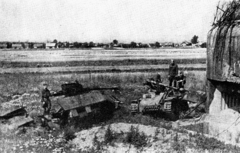 Ostrava operations - conquered the czechoslovak bunker near Ostrava